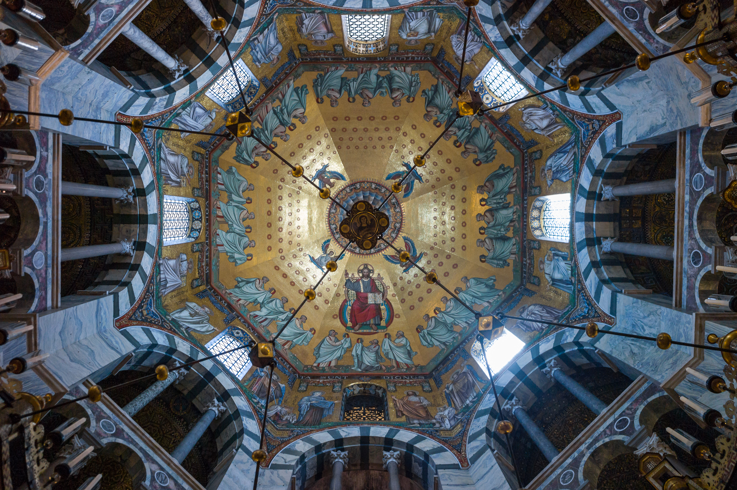 Vaulted ceiling of Aachen Cathedral in August 2014 Aachen Cathedral Native nameAachener DomLocationAachen, GermanyCoordinates50° 46′ 29.1″ N, 6° 05′ 02.12″ E Established796Web page control : Q5908 VIAF: 130198000 LCCN: n81107086 UNESCO: 3 GND: 4126584-1 SUDOC: 027486567 WorldCat institution QS:P195,Q5908 This is a photograph of an architectural monument.It is on the list of cultural monuments of Aachen